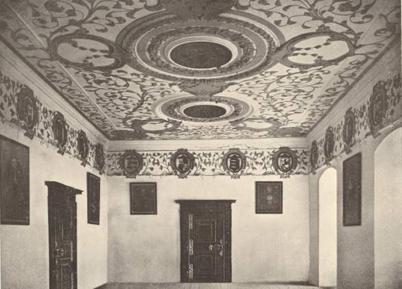 The interior of the Seisenburg as in 1912. The building was a ruin since the 1950s; it is almost vanished today.